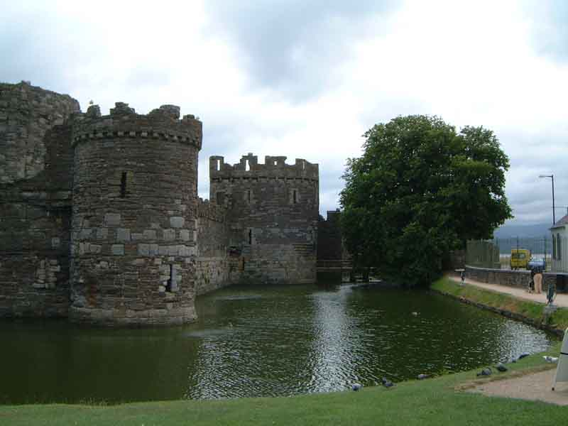 Beaumaris Castle and moat. (Photo by Mick Knapton licensed under GFDL)